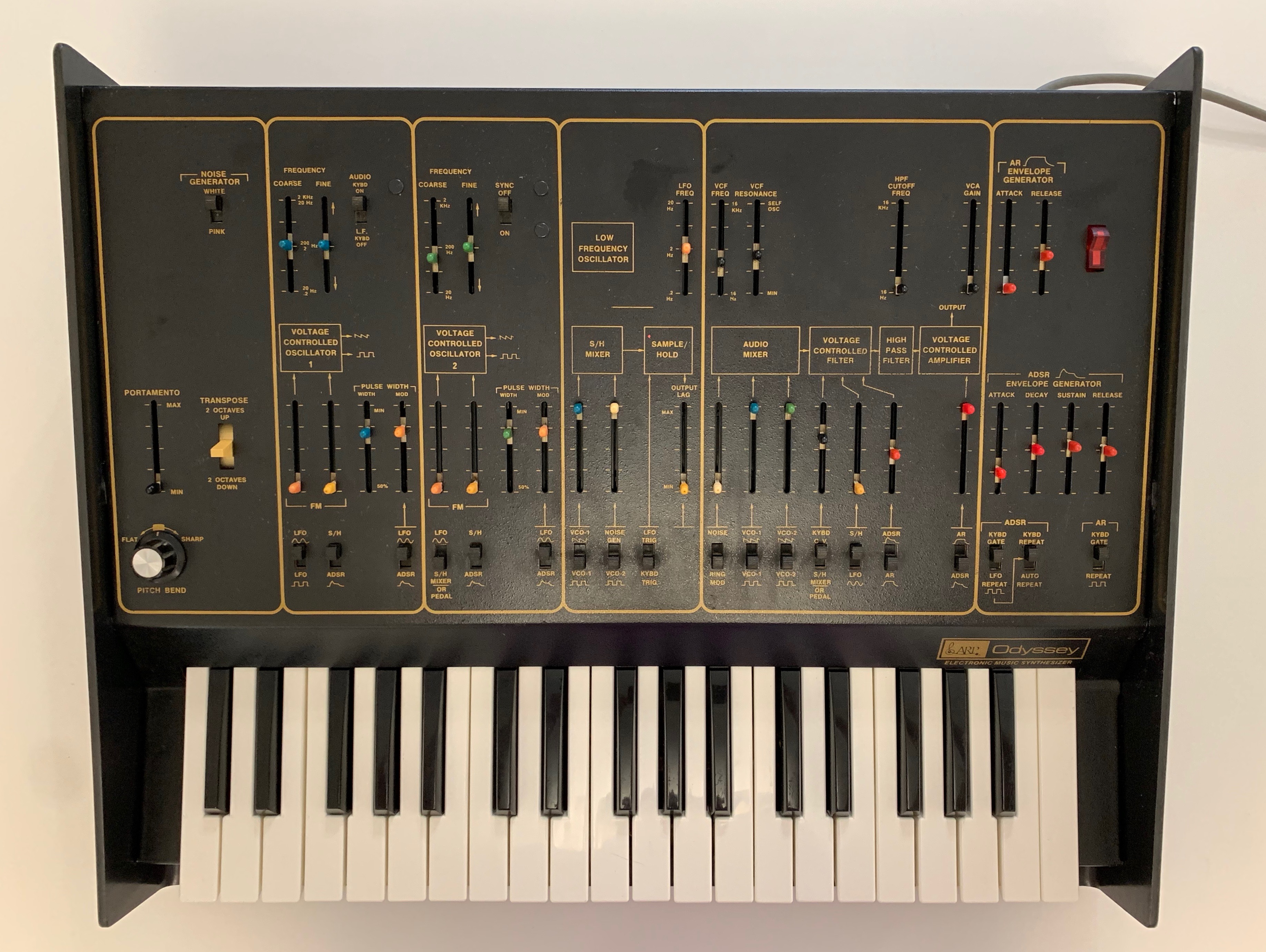 ARP Odyssey Mk1 'Black Face' synthesizer, from 1974. Few Mk1 models were made in this colouring, so this is rather rare.